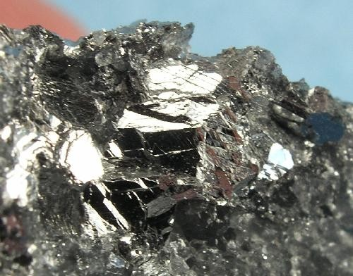 Antimony Locality: Monarch Antimony mine, Gravelotte, Murchison Range, Limpopo Province, South Africa (Locality at ) Size: 3 x 1.8 x 1.3 cm (largest). Set of three very nice pieces of Native Antimony. The crystals, lustrous and nicely striated in part, range up to .5 cm in size. Rare material from this mine These are found deep underground. Ex. Charlie Key Collection.